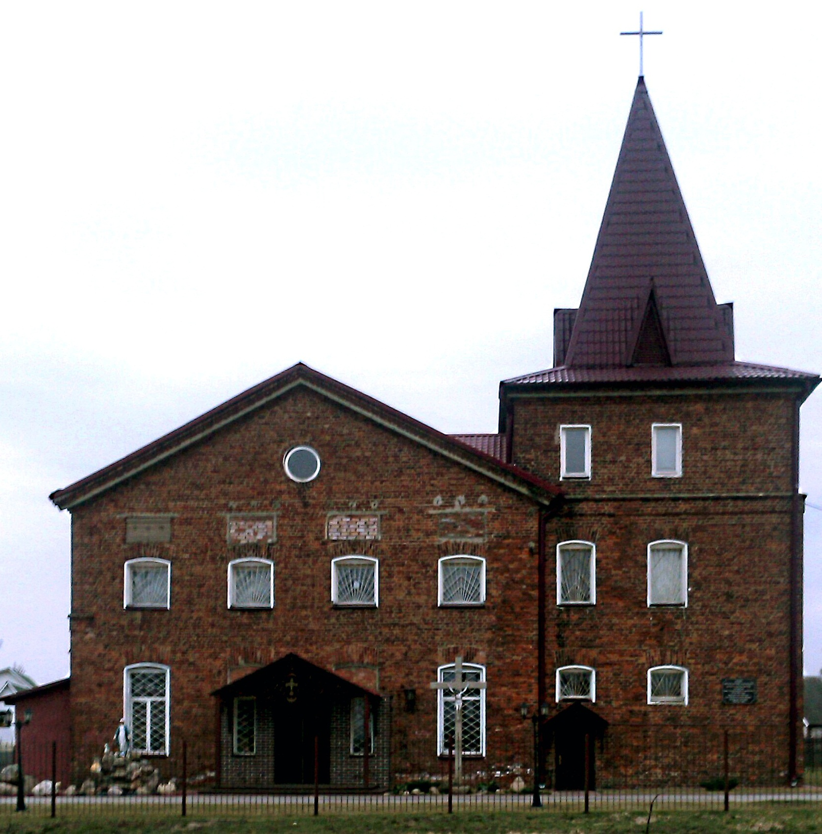 Church of Antony Padua in Mar`ina Gorka, facade